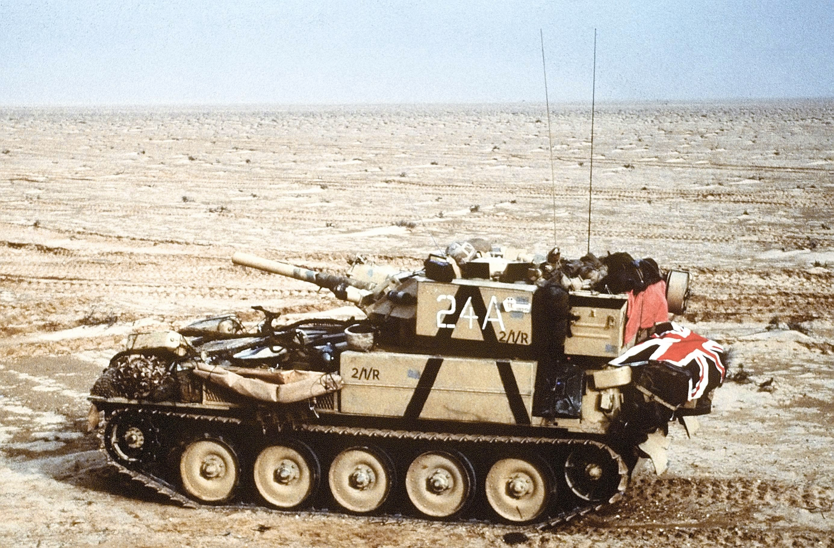 ID: DNST9207965 Service Depicted: Other Service Command Shown: D0302 A Scorpion reconnaissance vehicle of the 7th Brigade Royal Scots, 1st United Kingdom Armored Division, advances east into Kuwait from southern Iraq during Operation Desert Storm.